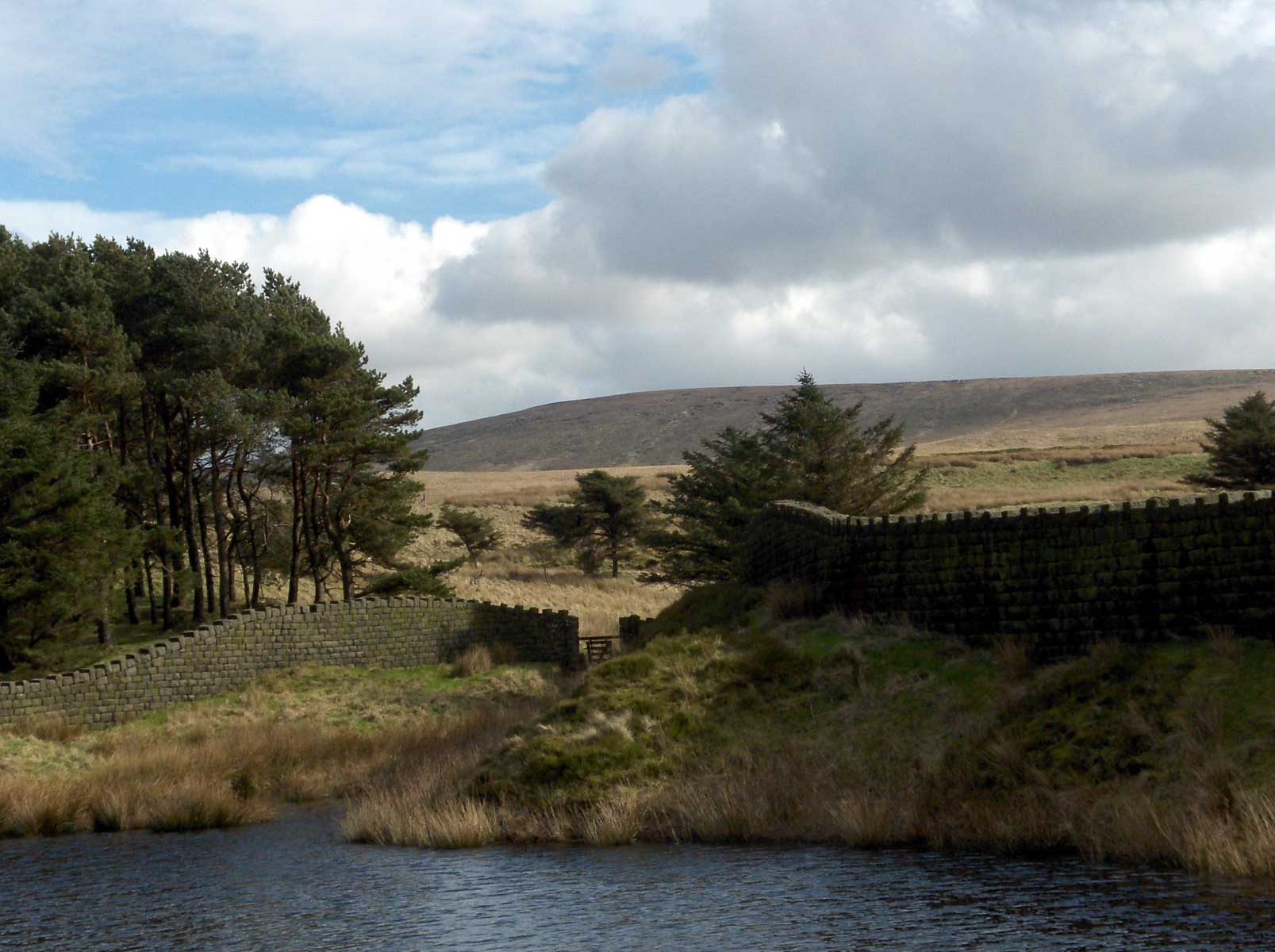 Boulsworth Hill and branch of Lower Coldwell Reservoir